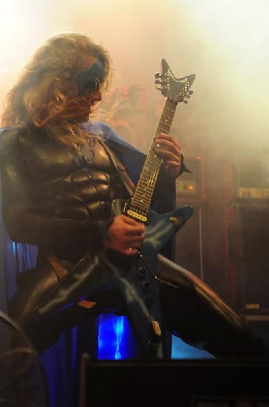 Lord Lightbringer, Grailknights